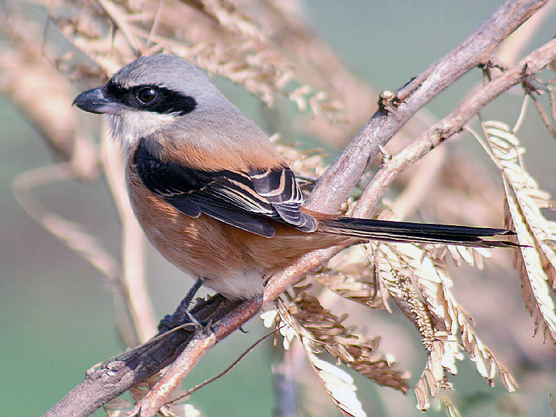 Long-tailed Shrike (Lanius schach) at/ near Hodal in Faridabad District of Haryana, India.